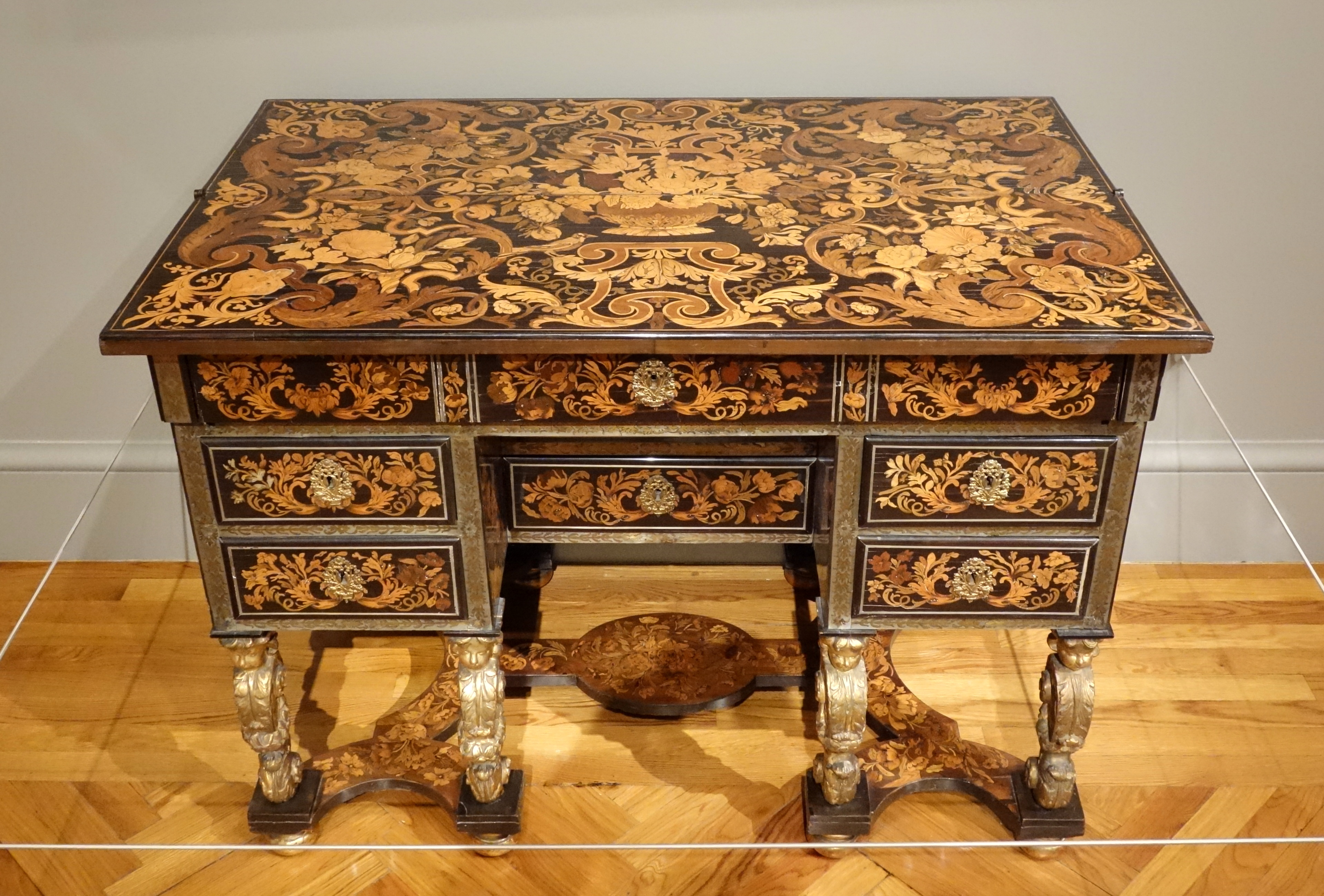 Exhibit in the California Palace of the Legion of Honor, San Francisco, California, USA. This work is old enough so that it is in the public domain.